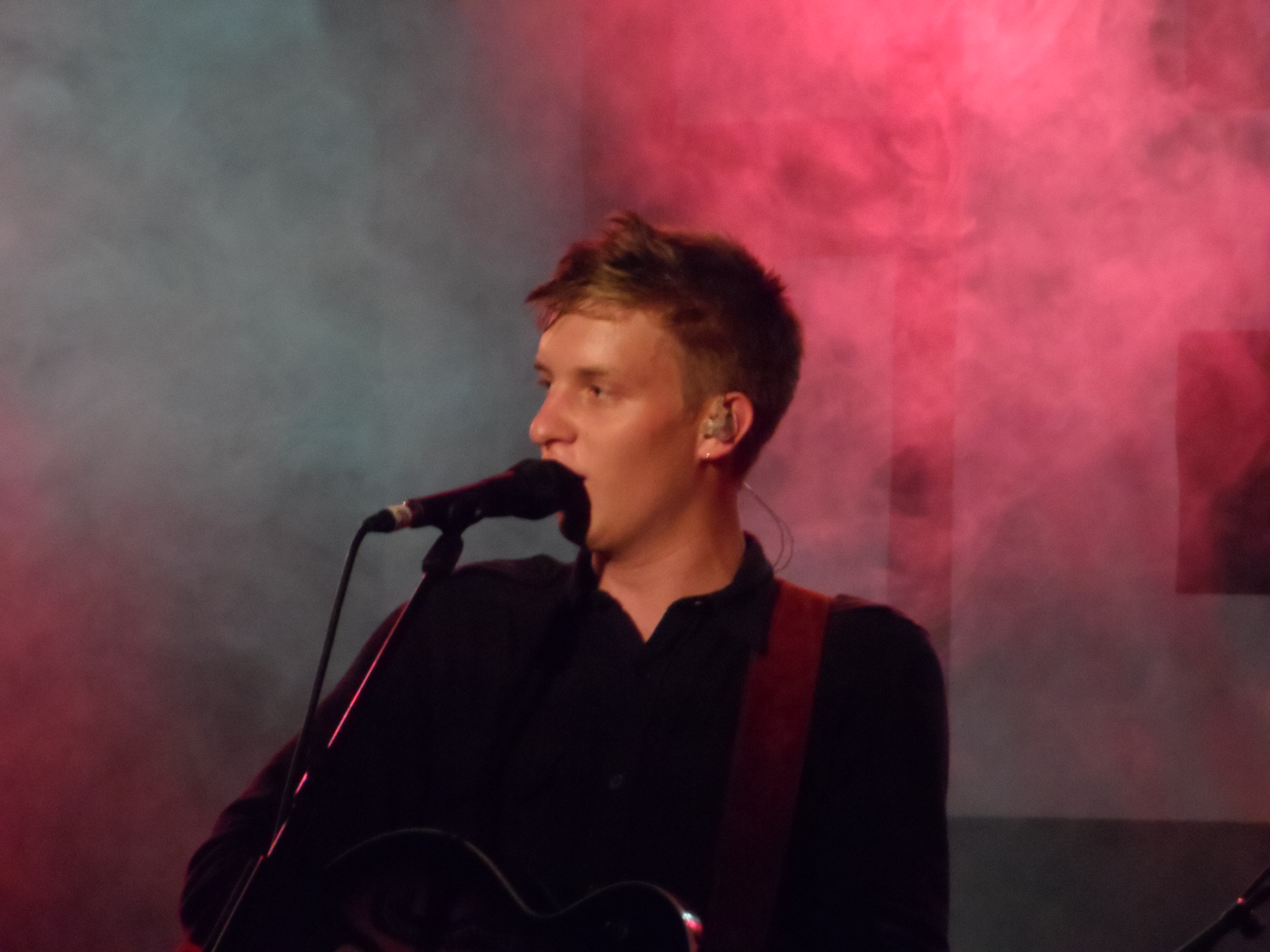 George Ezra in Sheffield